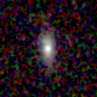 Galaxy NGC 463